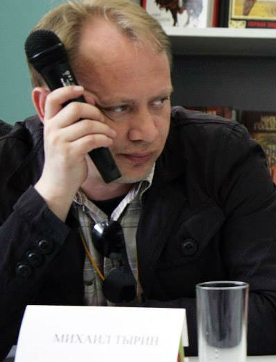 Mikhail Tyrin at a meeting with readers: May 25, 2015